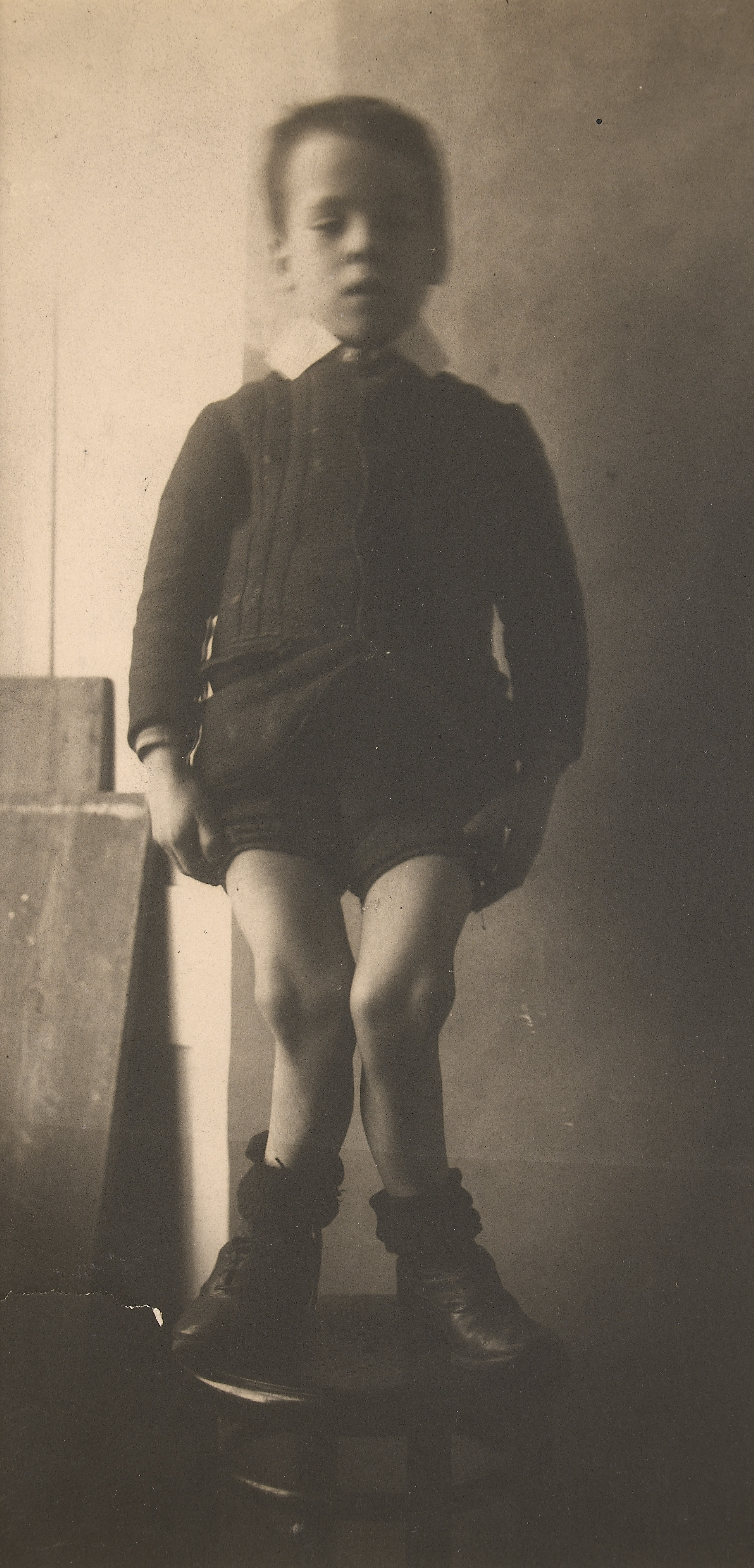 Black and white, full length photograph of a boy, aged 11 years, showing great deformity of the legs due to rickets. Medical Photographic Library Keywords: St Bartholomew's Hospital Photographic Society